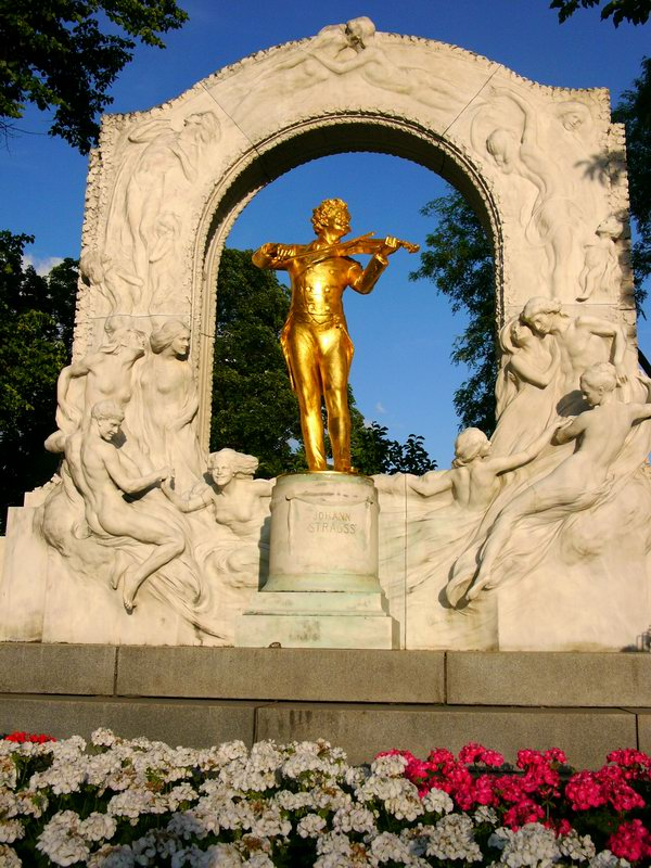 Johann Strauss II. (son) Statue (german Johann Strauß II. (Sohn)), Stadtpark, Vienna, Austria